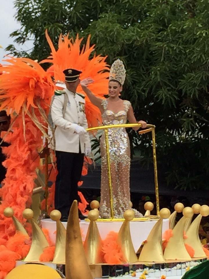 Queen of the Barranquilla Carnival